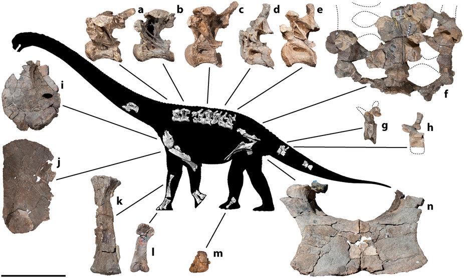 Figure 4: Savannasaurus elliottorum gen. et sp. nov., holotype specimen AODF 660. (a–e) Dorsal vertebrae (left lateral view). (f) Sacrum (ventral view). (g,h) Caudal vertebrae (left lateral view). (i) Left coracoid (lateral view). (j) Right sternal plate (ventral view). (k) Left radius (posterior view). (l) Right metacarpal III (anterior view). (m) Left astragalus (anterior view). (n) Coossified right and left pubes (anterior view). A number of ribs were preserved but have been omitted for clarity. Scale bar = 500 mm.